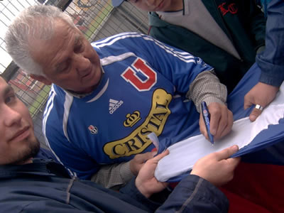 Leonel Guillermo Sánchez Lineros (born April 25, 1936 in Santiago de Chile) is a former professional football player. He played at left midfield for over 20 years between 1953 and 1973. 17 of those 20 were in Universidad de Chile, where he was the icon of the Ballet Azul (Blue Ballet), a team that won 6 national championships between 1959 and 1969.